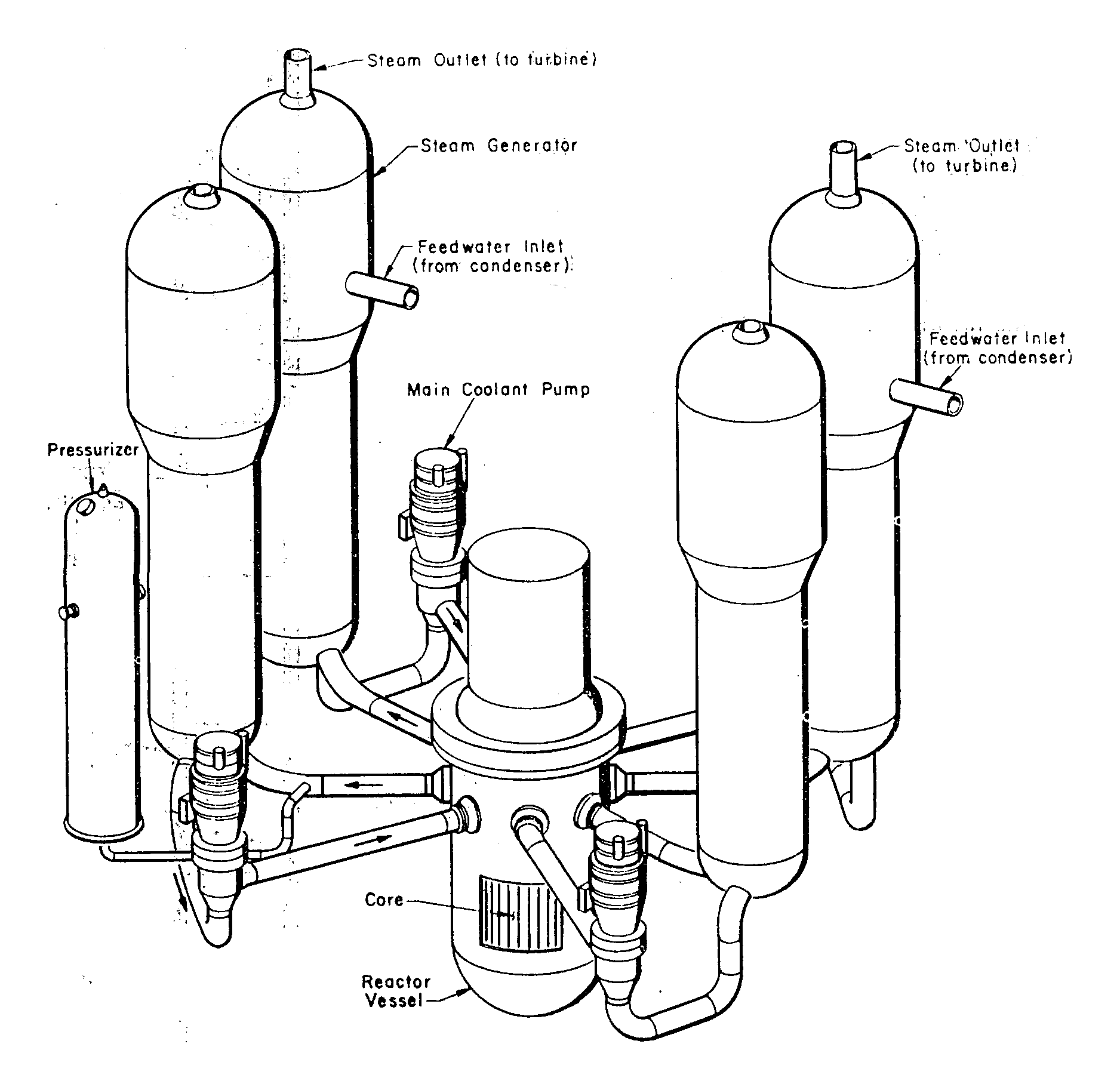 Reactor Safety Study, WASH-1400 - Figure 3-3. Schematic of Reactor Coolant System for PWR.